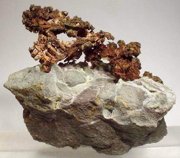 Copper Locality: Copper Cliff Mine, McKim Township, Sudbury District, Ontario, Canada (Locality at ) A VERY SCULPTURAL specimen of dendritic, spinel-twinned copper crystals with a very nice patina artfully attached to two-toned matrix from the Copper Cliff Mine, Ontario, Canada. The piece sits up very nicely without aid. It is very well crystallized for the locality. 4.8 x 4.2 x 2.7 cm